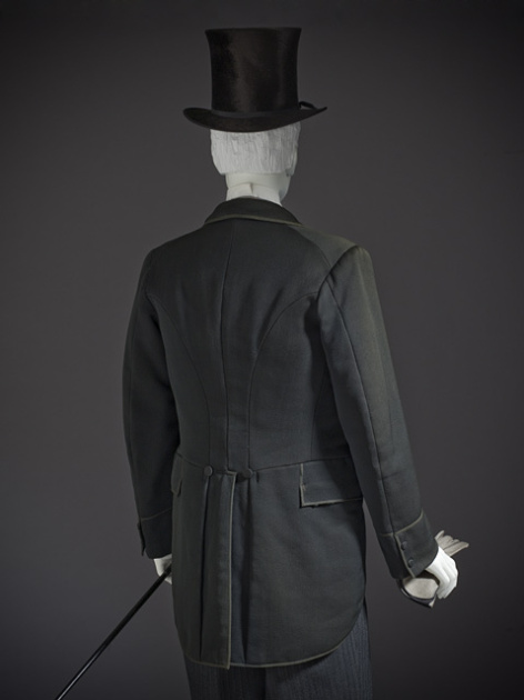 England, circa 1880 Costumes Wool twill with wool braid trim Purchased with funds provided by Michael and Ellen Michelson (M.2010.33.15a-b) Costume and Textiles